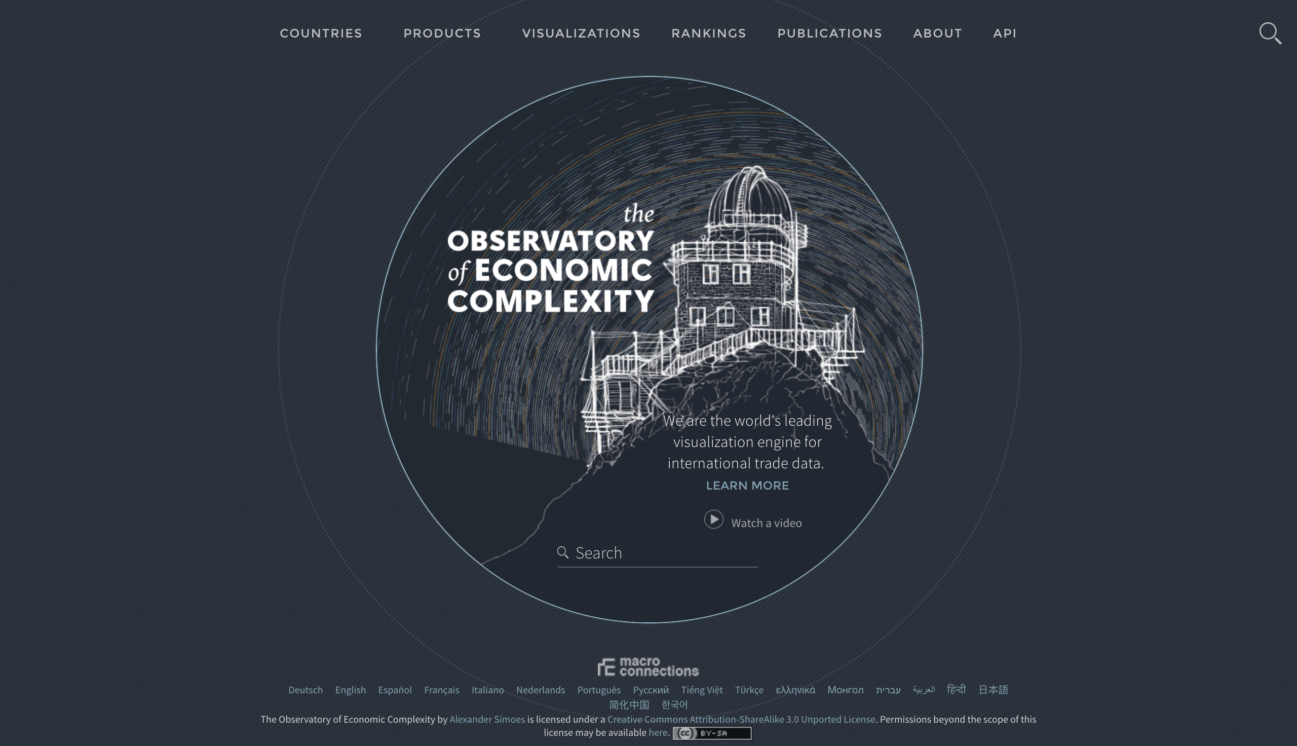 A screenshot of the OEC homepage.